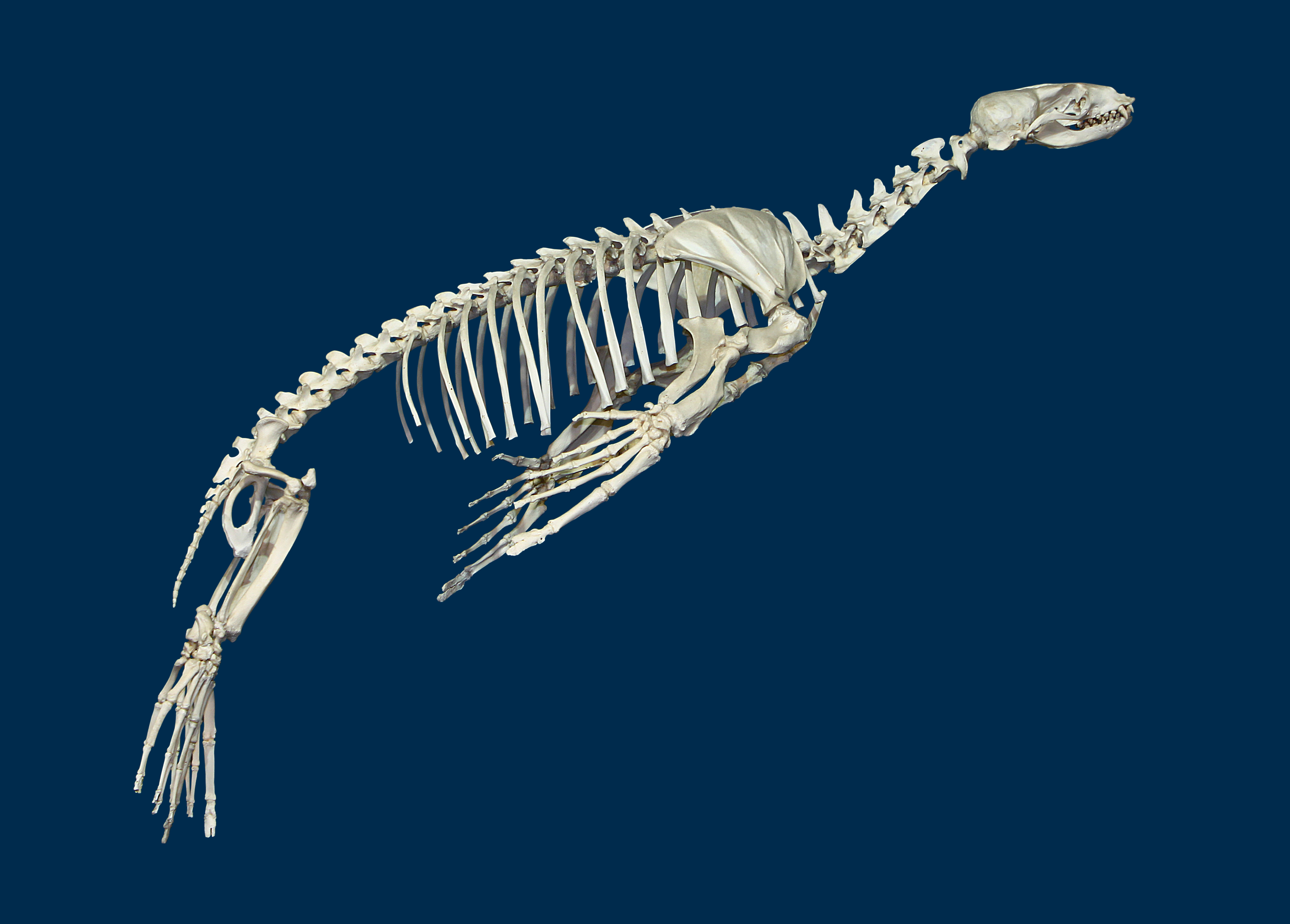 California Sea Lion, skeleton, length about 2 m; State Museum of Natural History Karlsruhe, Germany.